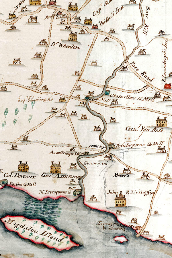 Map of the Town of Rhinebeck in the County of Dutchess, in the Montgomery Place collection held by Bard College.